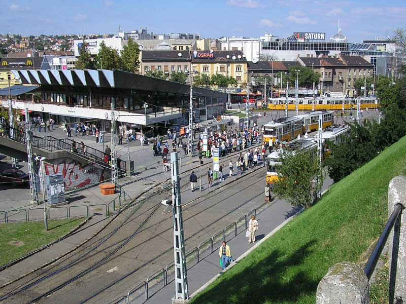 Széll Kálmán tér, Budapest